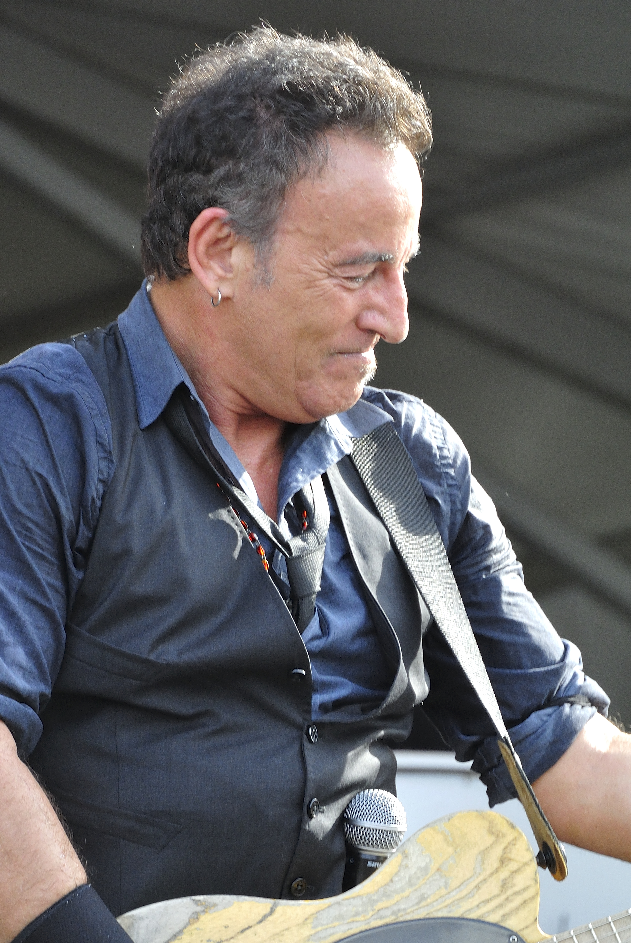 Bruce Springsteen & The E Street Band - New Orleans Jazz & Heritage Festival 2012